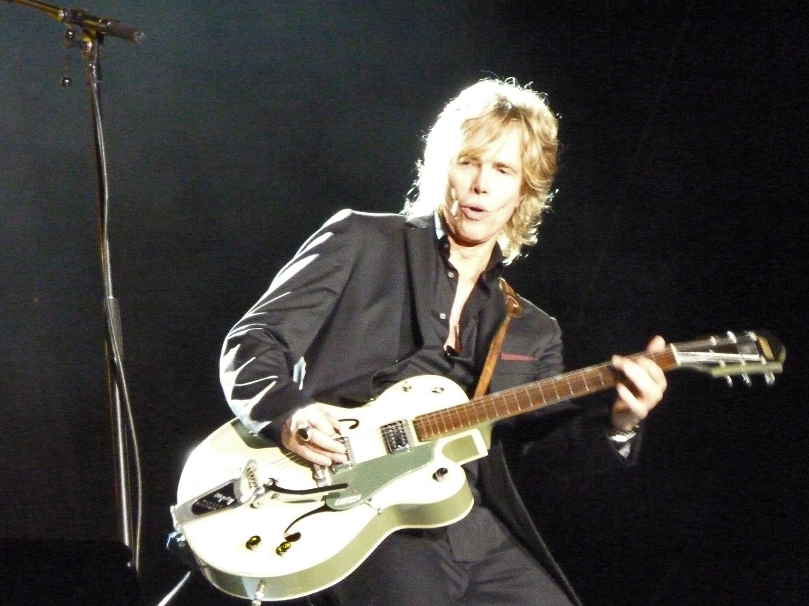 Brian Ray performing with Paul McCartney in Dublin.